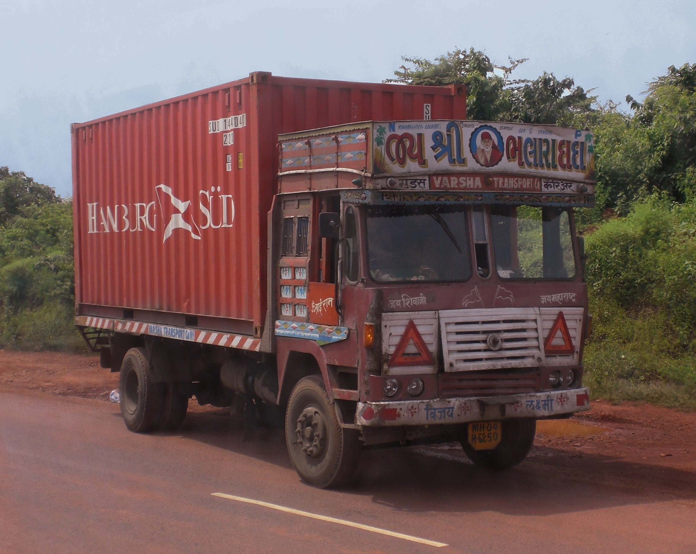 A truck carrying a german Hamburg Süd 20 foot shipping container on National Highway 17 between Goa and Mumbai.